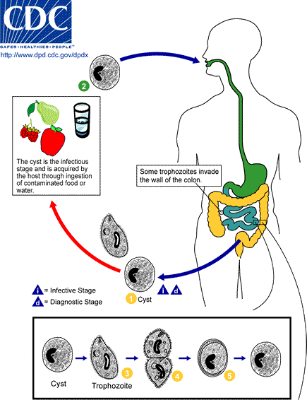 Cysts are the parasite stage responsible for transmission of balantidiasis . The host most often acquires the cyst through ingestion of contaminated food or water . Following ingestion, excystation occurs in the small intestine, and the trophozoites colonize the large intestine . The trophozoites reside in the lumen of the large intestine of humans and animals, where they replicate by binary fission, during which conjugation may occur . Trophozoites undergo encystation to produce infective cysts . Some trophozoites invade the wall of the colon and multiply. Some return to lumen and disintegrate. Mature cysts are passed with feces .